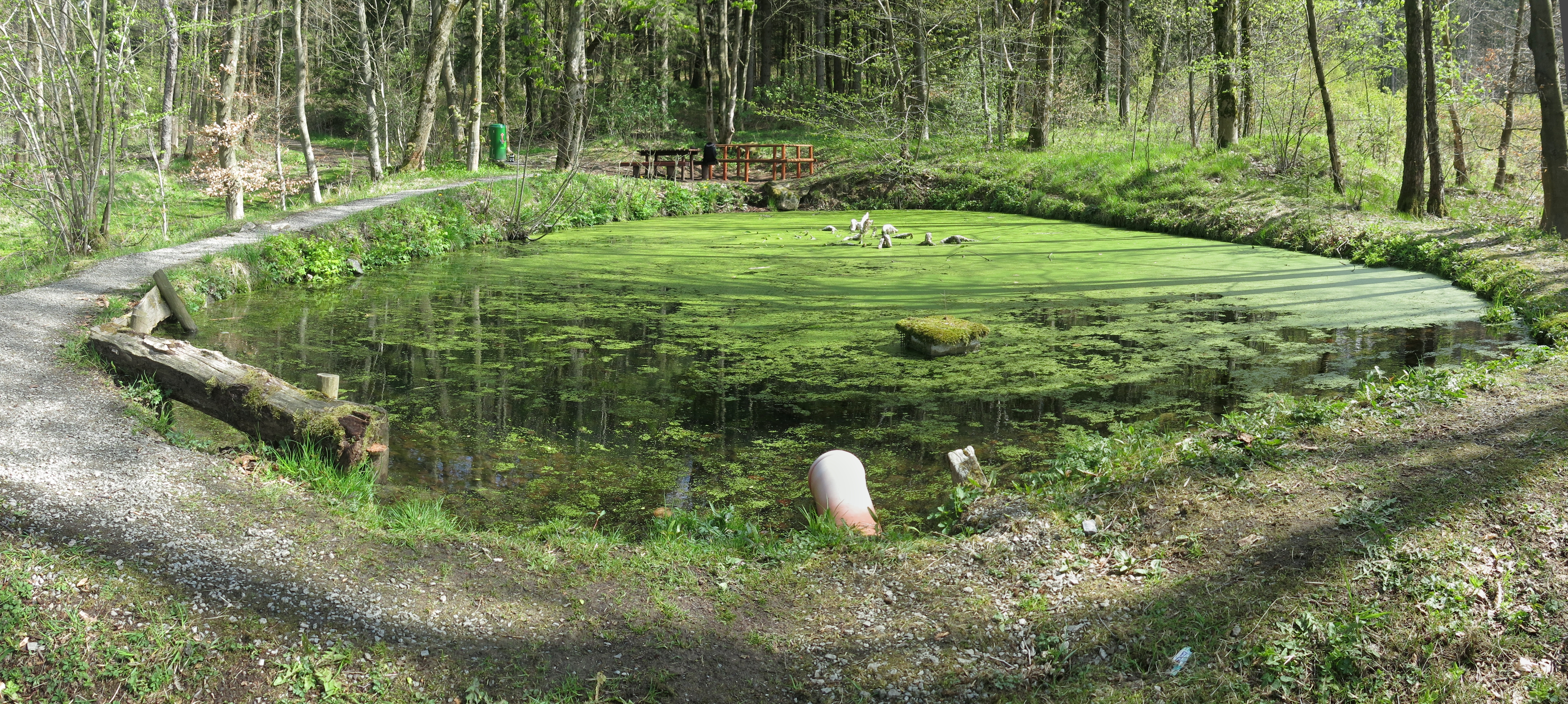 Pond in the near of "Bubenbader Stein" in the Rhön Mountains